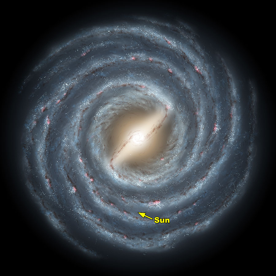 This is an artist's rendering showing the galaxy Milky Way and its central bar as it might appear if viewed from above. Our Sun is indicated here. Astronomers have concluded for many years that our galaxy harbors a stellar bar, though its presence has been inferred indirectly. Our vantage point within the disk of the galaxy makes it difficult to accurately determine the size and shape of this bar and surrounding spiral arms. New observations by the GLIMPSE legacy team with NASA's Spitzer Space Telescope indicate that the bar-shaped collection of old stars at the center of our galaxy may be longer, and at a different orientation, than previously believed. The newly-deduced size and angle of the bar are shown relative to Sun's location. Milky Way may appear to be very different from an ordinary spiral galaxy. Credit: NASA/JPL-Caltech/R. Hurt (SSC)